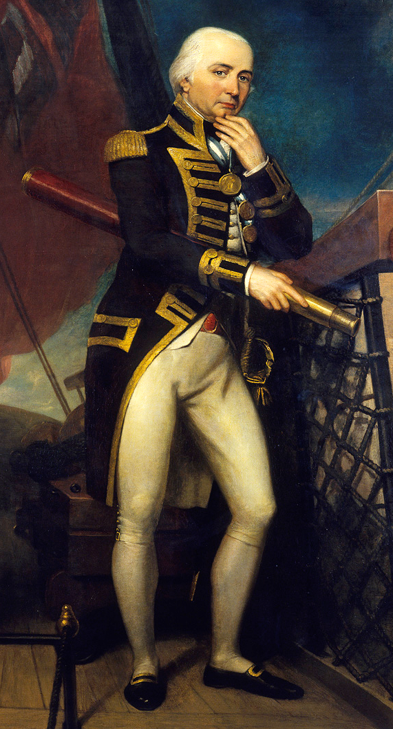 Rear-Admiral Cuthbert Collingwood, 1748-1810, 1st Baron Collingwood